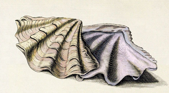 Shell pictures by Anna or Susanna Lister in the Bodlian Library (someone claims copyright to these ???)